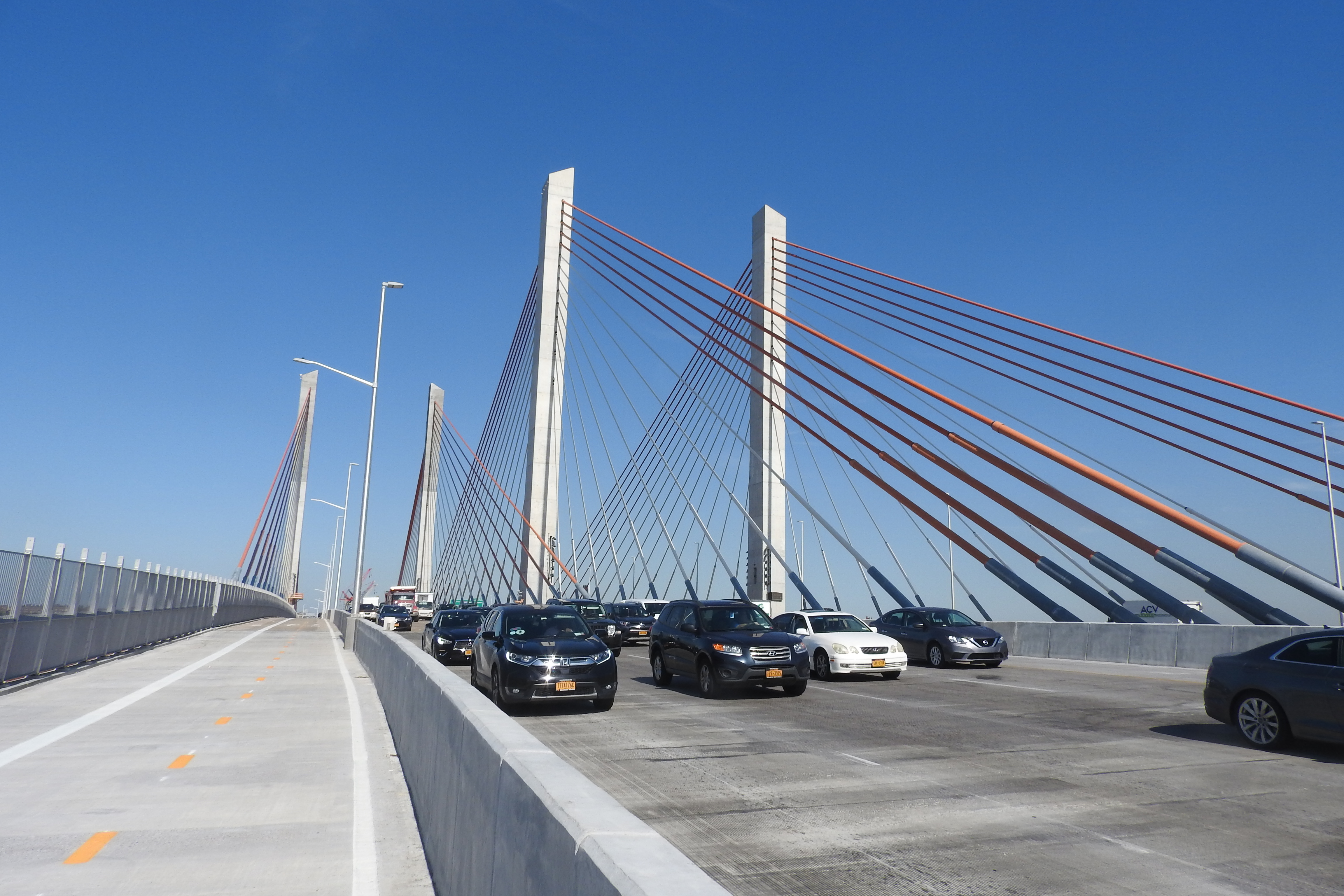 Looking northeast at bridge supports, cables, and approaching cars